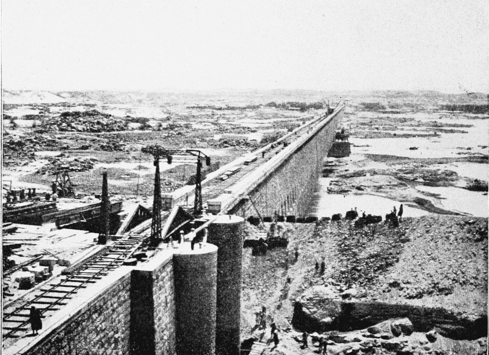 South of dam from west bank